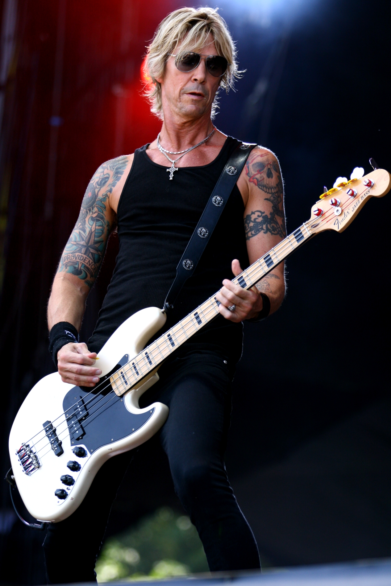 Duff McKagan, bass guitarist of Walking Papers, on the Alternastage of Rock im Park Festival 2014. Festivalsommer This photo was created with the support of donations to Wikimedia Deutschland in the context of the CPB project "Festival Summer".